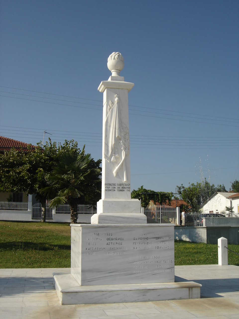 A memorial plaque for people killed through wars, in Makrigialos, Pieria.